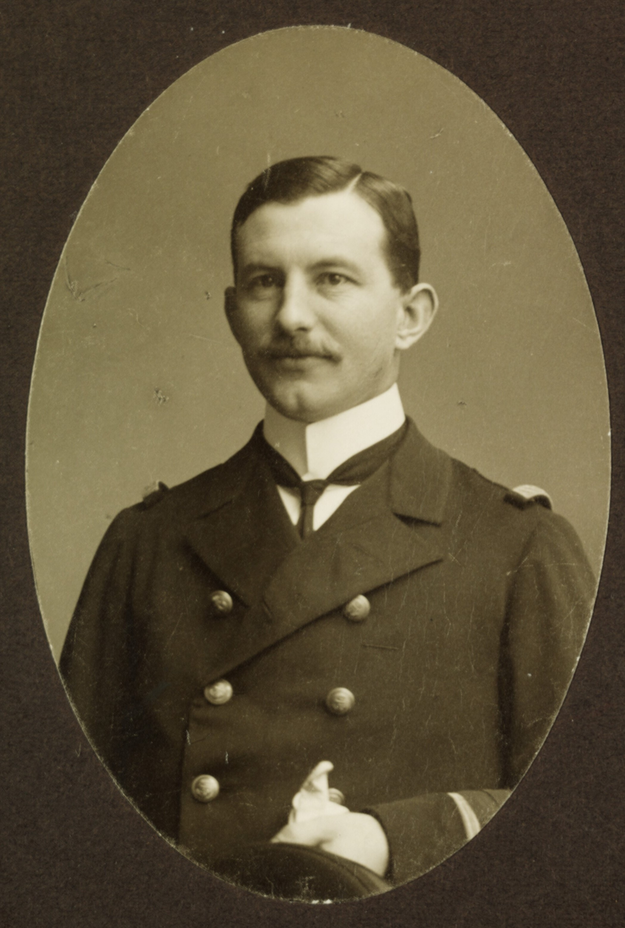 Hjalmar Rechnitzer as a young officer